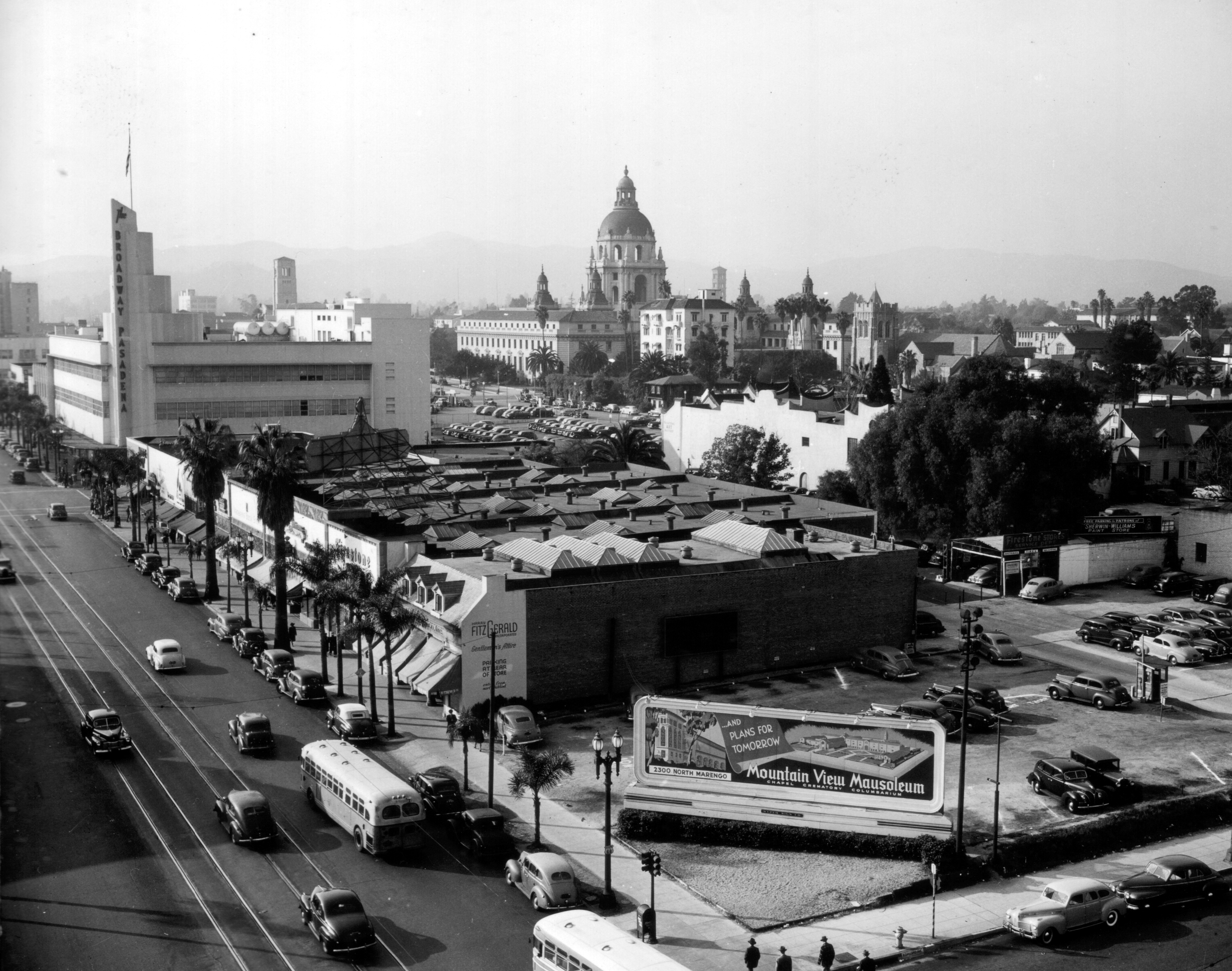 Skyline of Pasadena, in 1945. Posted to flickr by user army.arch here From the National Archives 111-SC box 692 329538